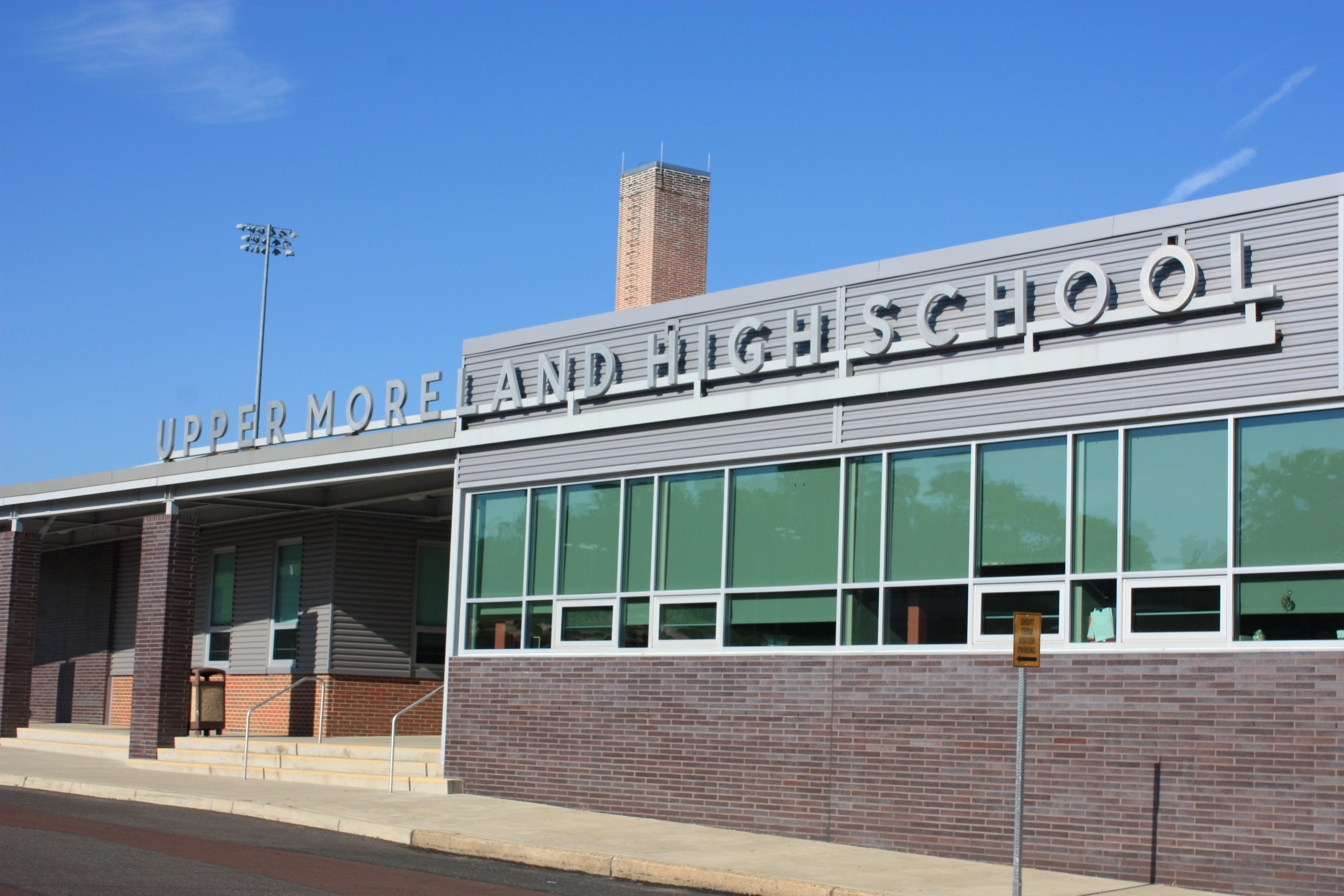 Upper Moreland High School in Upper Moreland Township, Montgomery County, Pennsylvania. Photo taken and freely licensed by the Montgomery County Planning Commission, who are obviously very forward looking folks.